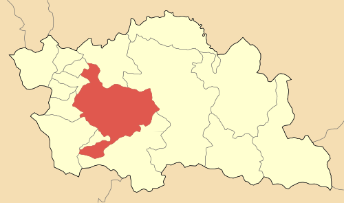 Locator map of Theodorou Ziaka municipality (Δήμος Θεοδώρου Ζιάκα) at Grevena perfecture, Greece.